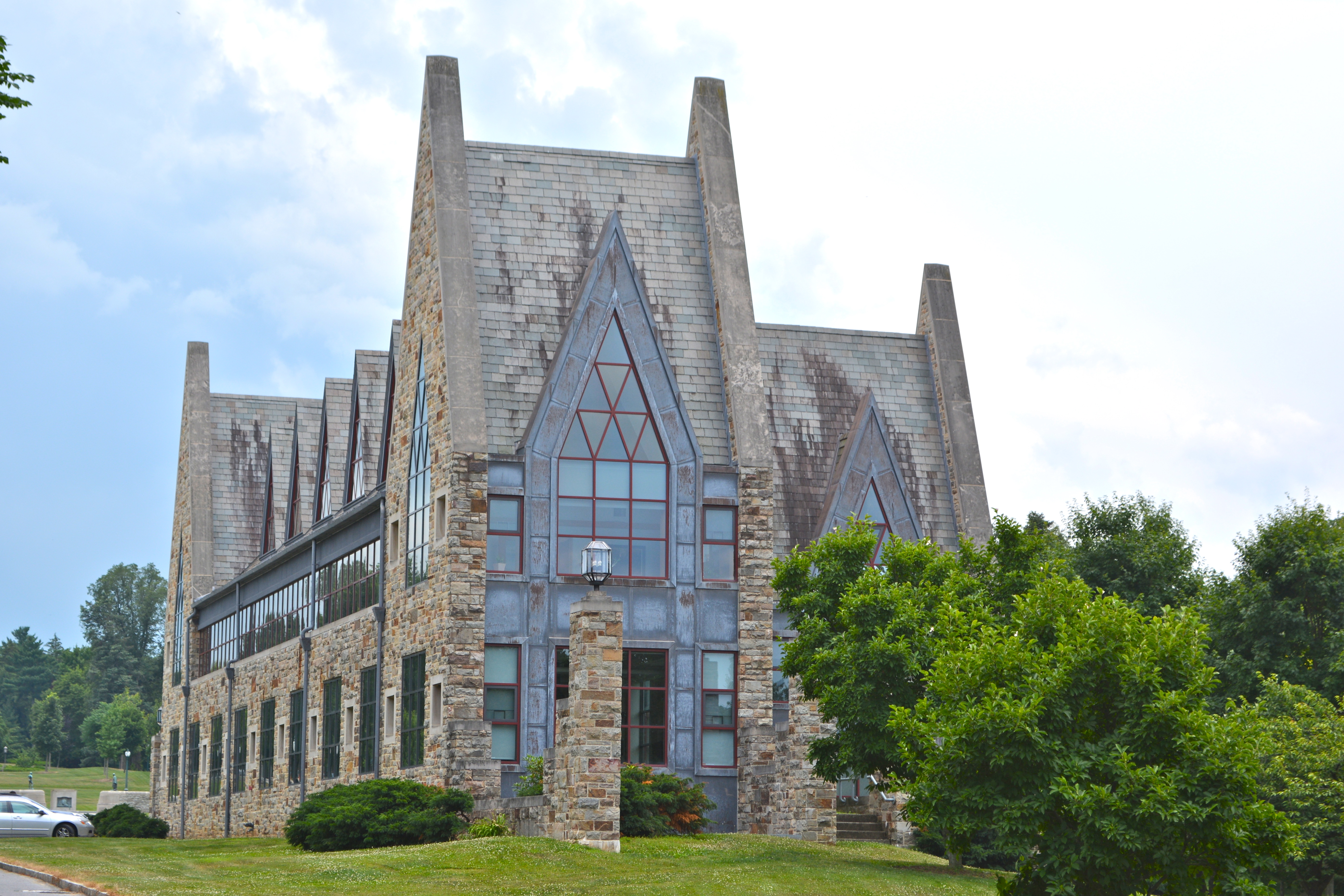 Mercersburg Academy listed on thenrhp on June 21, 1984 (#84003374). On Pennsylvania Route 16, in Mercersburg, Franklin County, Pennsylvania